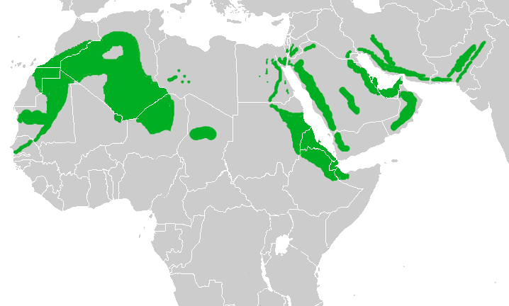 Range map of Ptyonoprogne obsoleta Based on data from Snow, David; Perrins, Christopher M (editors) (1998). The Birds of the Western Palearctic concise edition (2 volumes). Oxford: Oxford University Press. ISBN 019854099X. p. 1058 Turner, Angela K; Rose, Chris (1989). A handbook to the swallows and martins of the world. Christopher Helm. ISBN 0-7470-3202-5. p. 60 BirdLife species page Mapped onto BlankMap-World-large.png